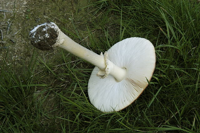 Amanita muscaria from Commanster, Belgium. The determination of the species shown in this picture has been verified.